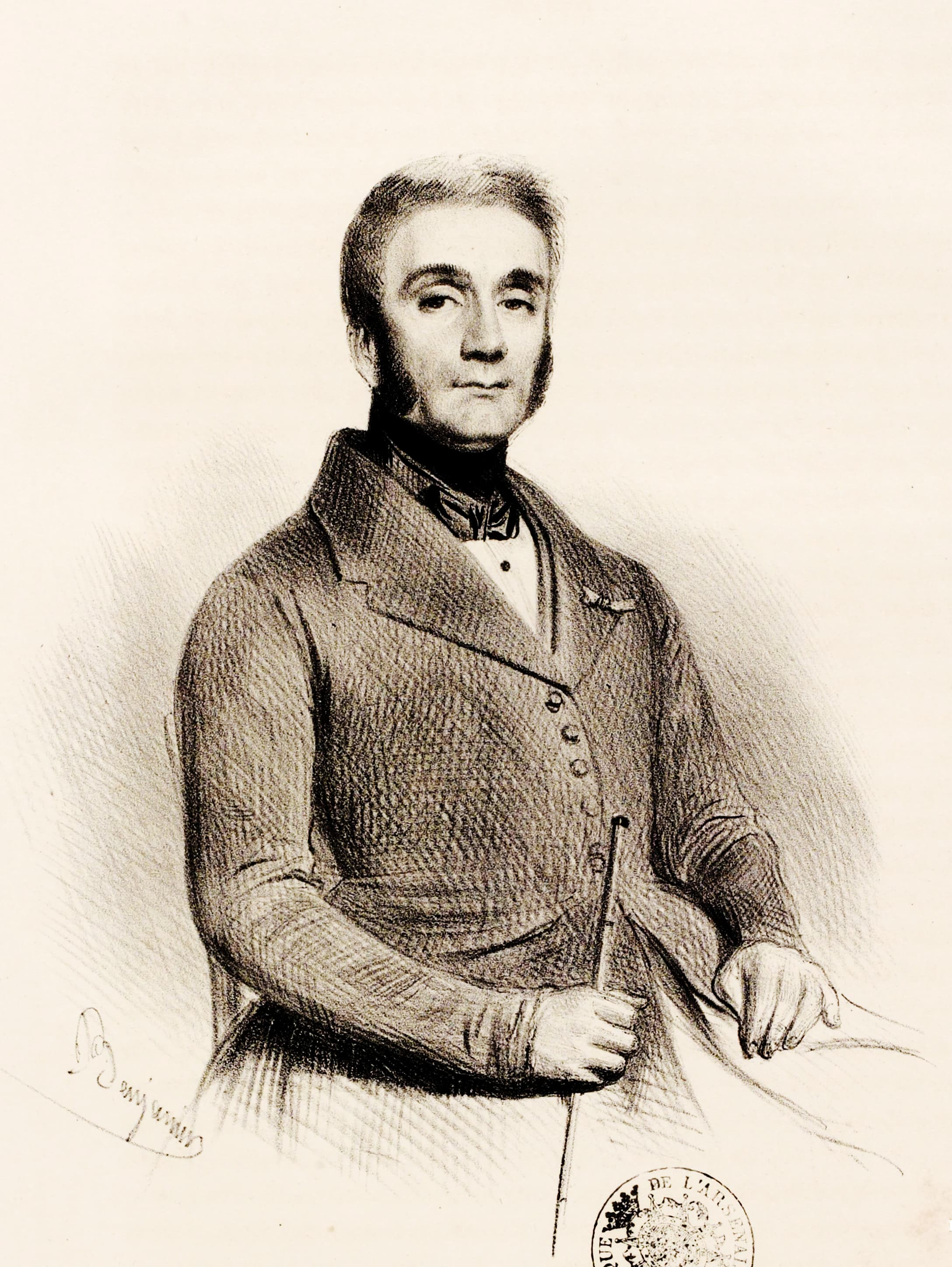 Drawing of Félix-Auguste Adolphe Duvert (1795-1877), French playwight